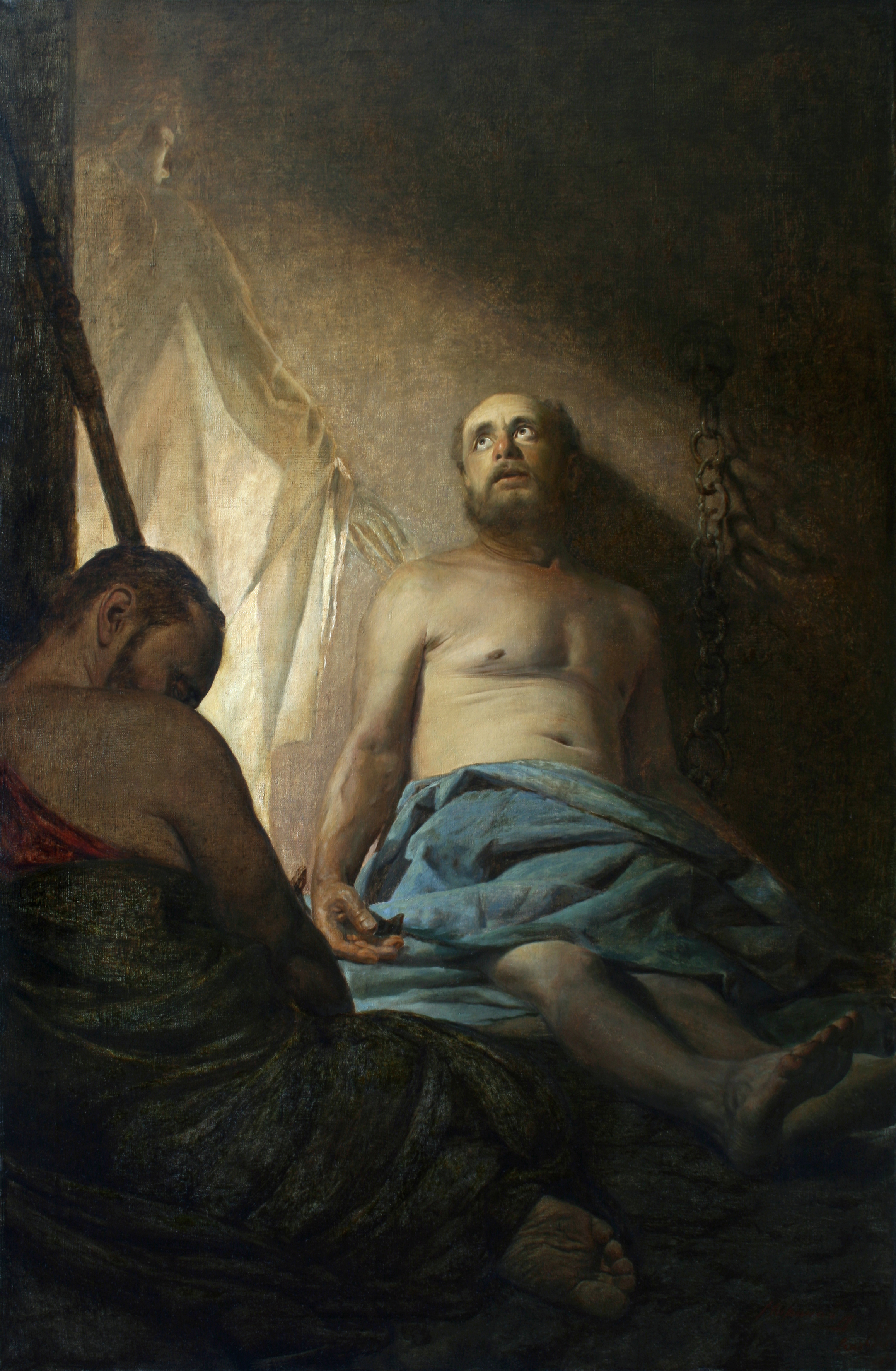 The appearance of the angel to the Apostle Peter.